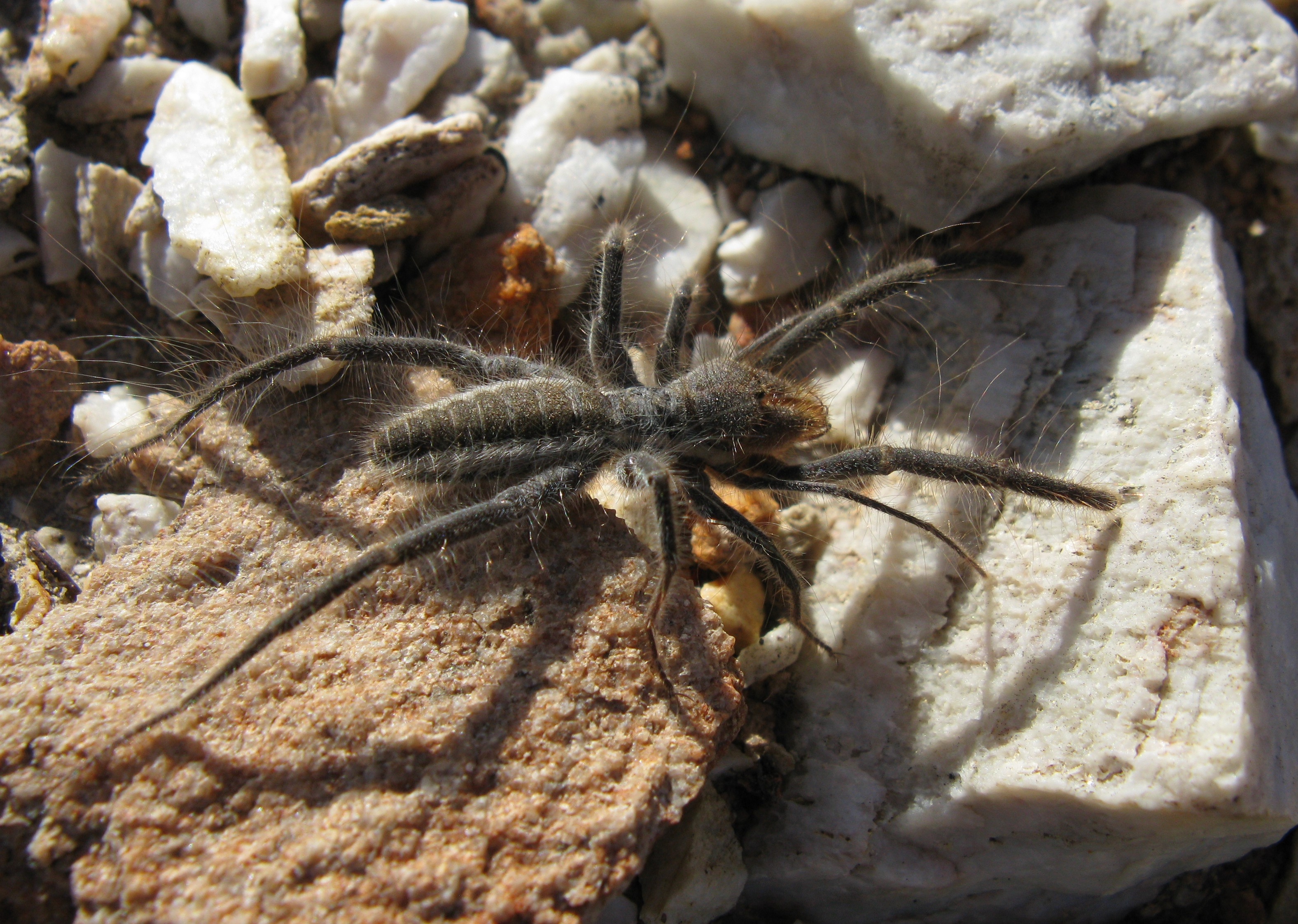 Modest-sized Solifugid near Uniondale, Western Cape, South Africa. The large fore-limbs are not legs, but pedipalps; note that they are held not quite touching the ground.